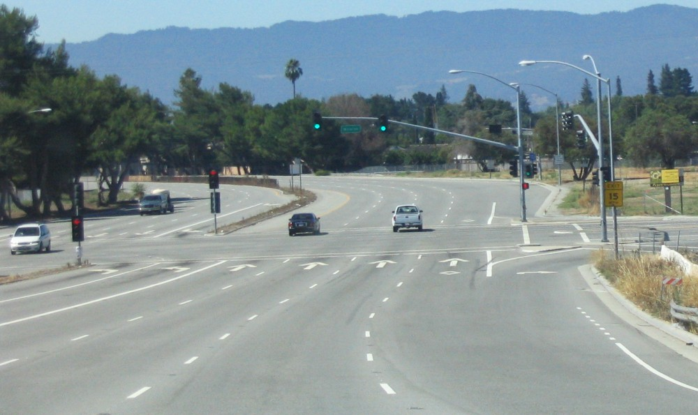 Intersection of Santa Clara County Route G4, San Tomas Expressway, with Monroe Street, in Santa Clara, California. The view is facing southbound on the expressway, from the top of the overpass over the Caltrain tracks. Photographed and uploaded by user Coolcaesar on August 1, en:2005.